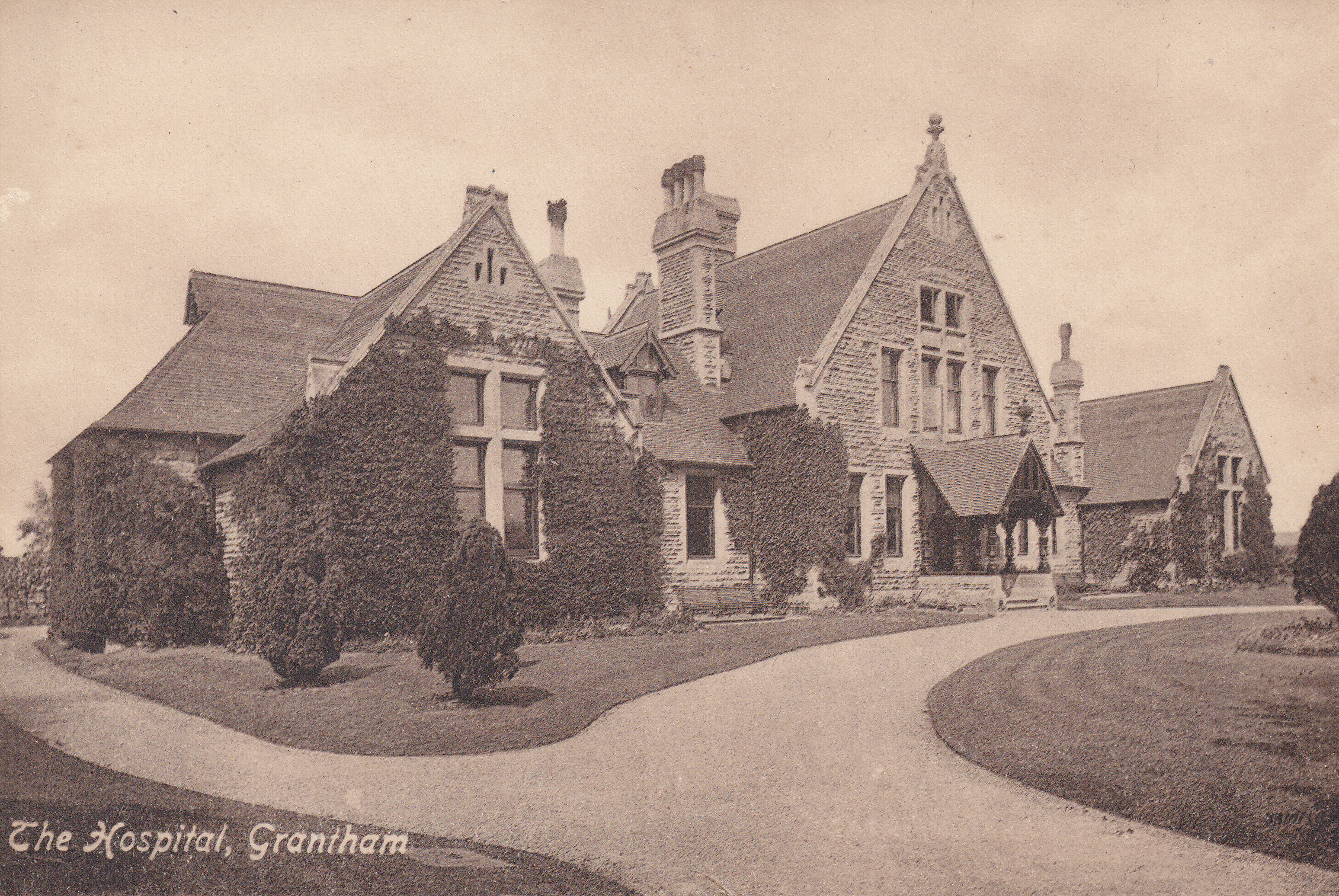 Postcard image of Grantham Cottage Hospital as built in 1857